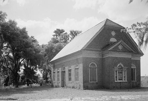 Pompion Hill Chapel (Berkeley County, South Carolina) (Cropped)